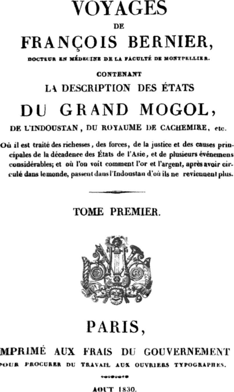 Title page from Voyages de François Bernier, Docteur en médecine de la faculté de Montpellier. Contenant la description des états du Grand Mogol, de l'Indoustan, du royaume de de Cachemire, etc., TOME PREMIER, PARIS, Imprimé aux frais du gouvernement pour procurer du travail aux ouvriers typographes, AOUT 1830.